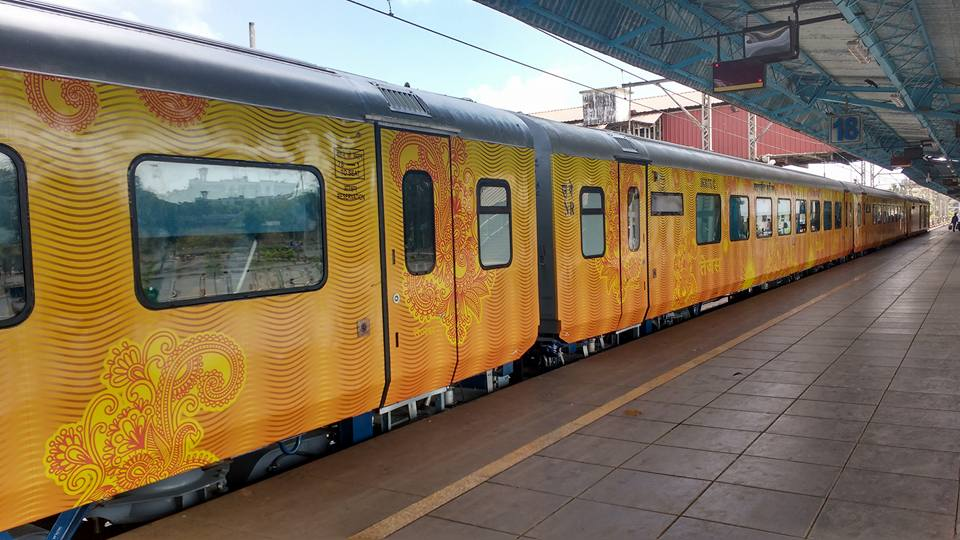 Tejas Express at Mumbai CSMT station